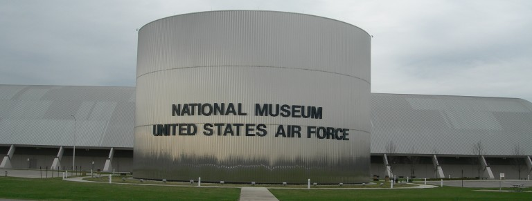 Exterior of the National Museum of the United States Air Force